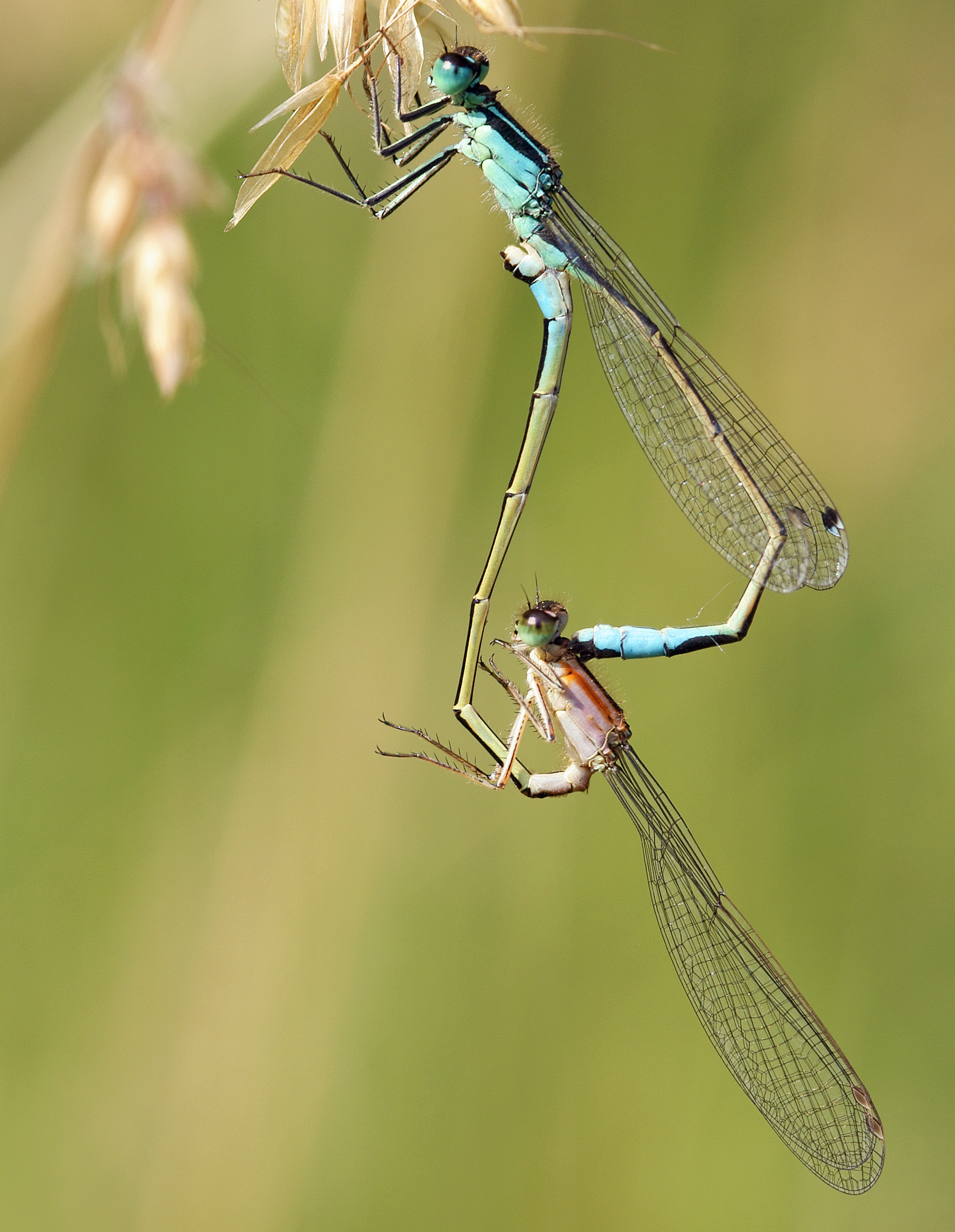 Mating wheel of Ischnura elegans – At the top the male, Neuss, Germany.